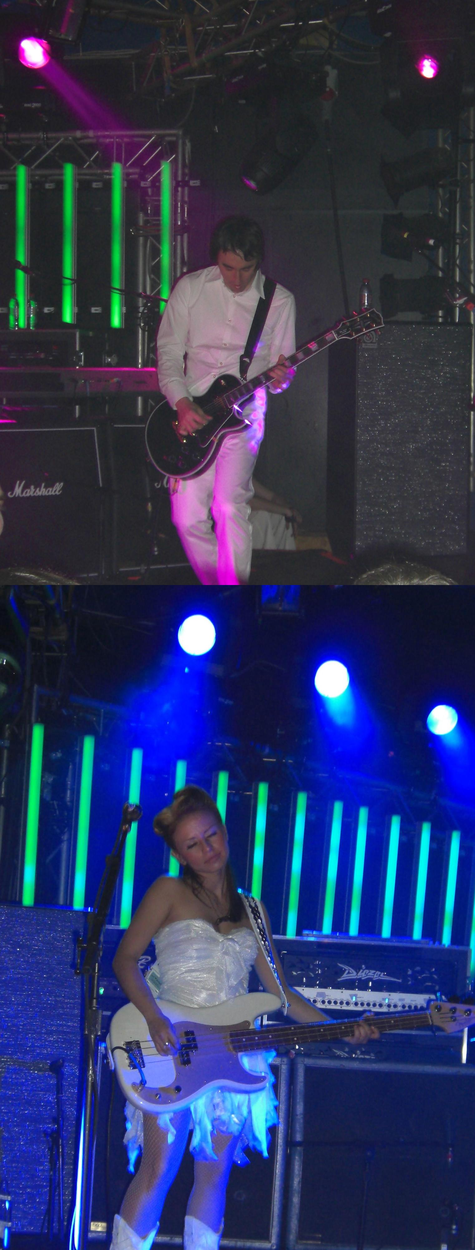 Pictures of Jeff Schroeder and Ginger Reyes cropped and pasted together.